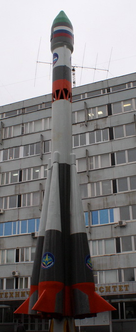 Rocket model not far from Kursk state technical state university's main building. Gift of cosmodrome Plesetsk.